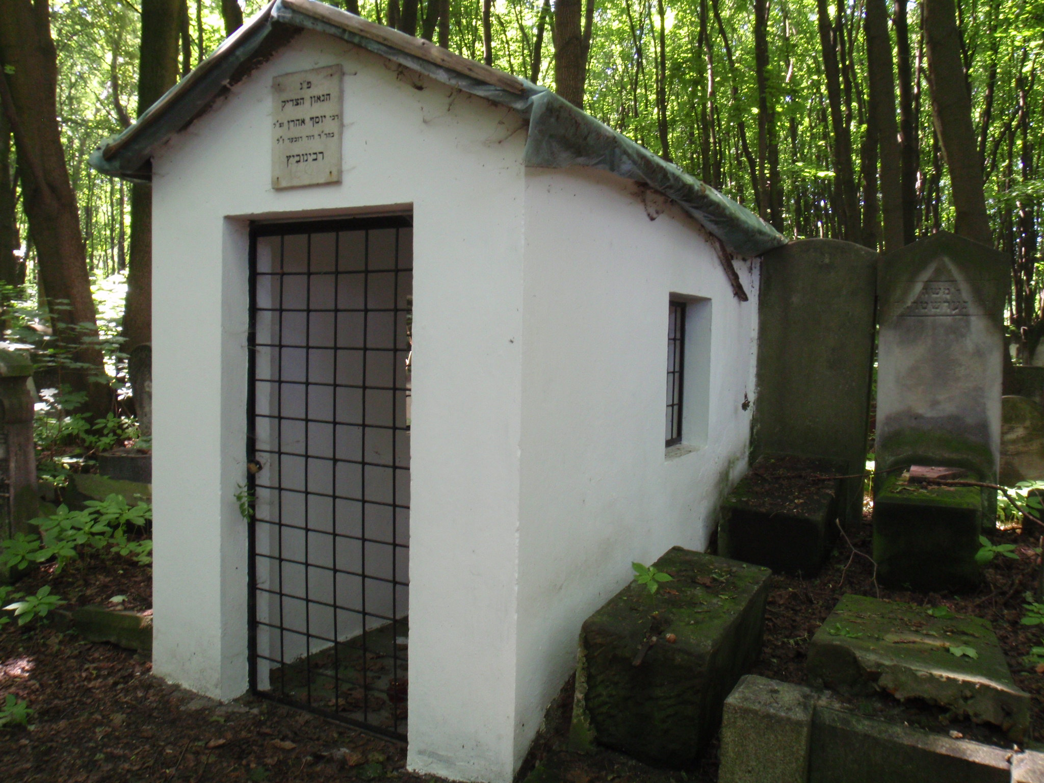 Ohel of Józef Aron Rabinowicz tzadik from Warsaw